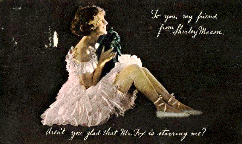 Postcard promoting the 1920 film Molly and I starring Shirley Mason. The postcards were apparently sent to Mason's fans shortly before the film was to play in their area.